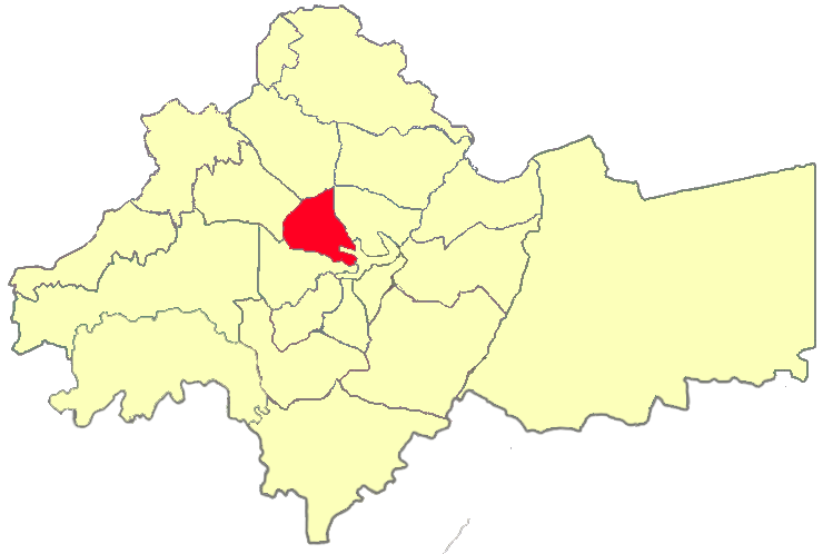 Amman districts